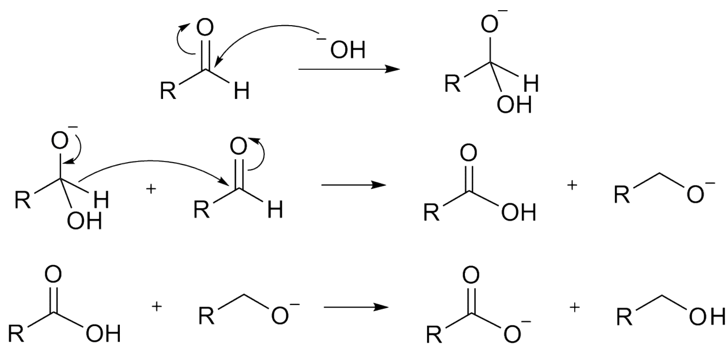 Cannizzaro reaction general mechanism